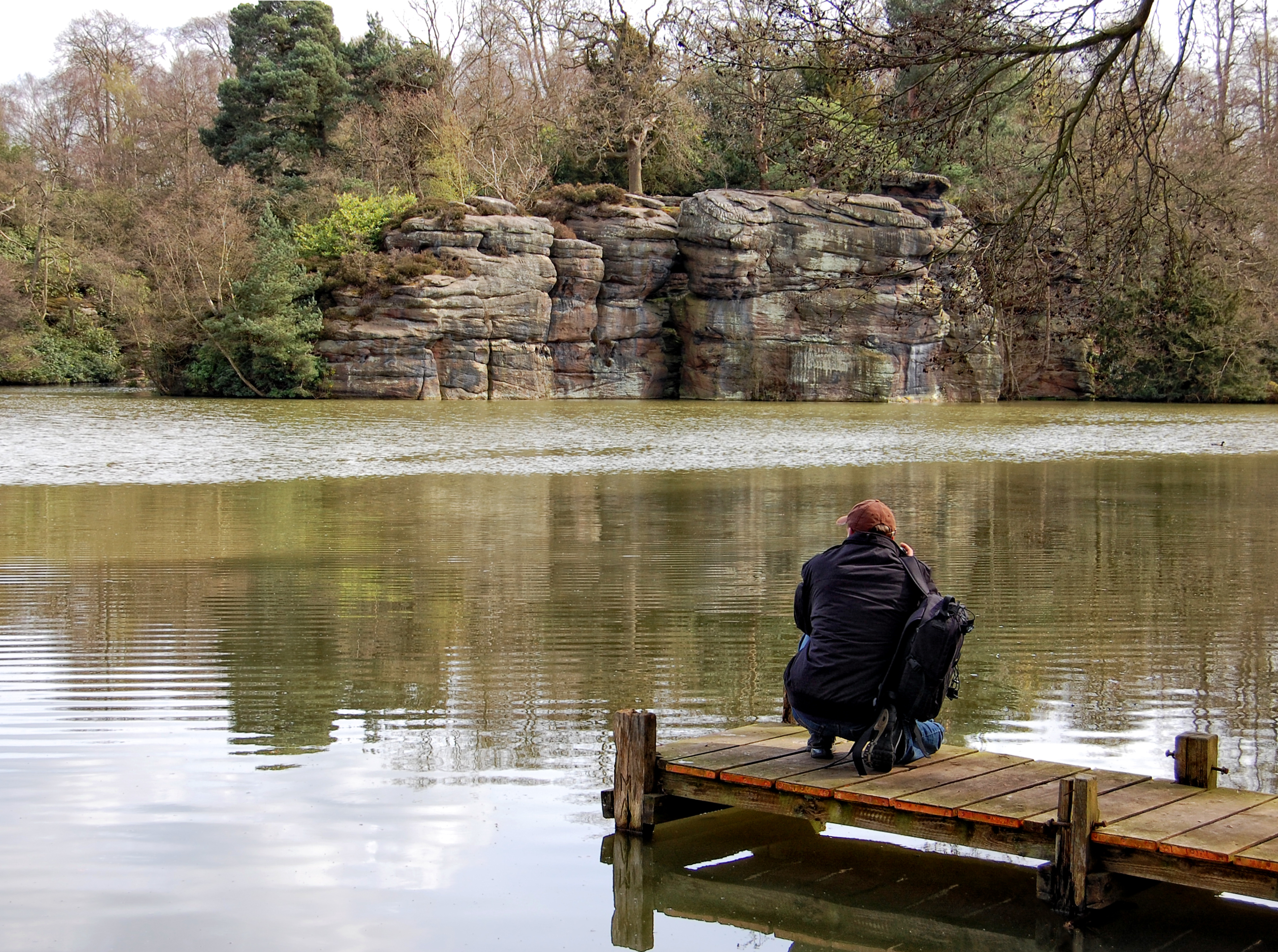 The sandstone features known as Plumpton Rocks in North Yorkshire have been admired by people wishing to capture their beauty since the 16th century - a map from 1587 shows the spot to be almost unchanged when compared to its current appearance. Today, it's mostly photographers like me and the chap depicted here who come to document its looks - but the rocks also appear in historical paintings by the likes of Thomas Girtin and J.M.W Turner.